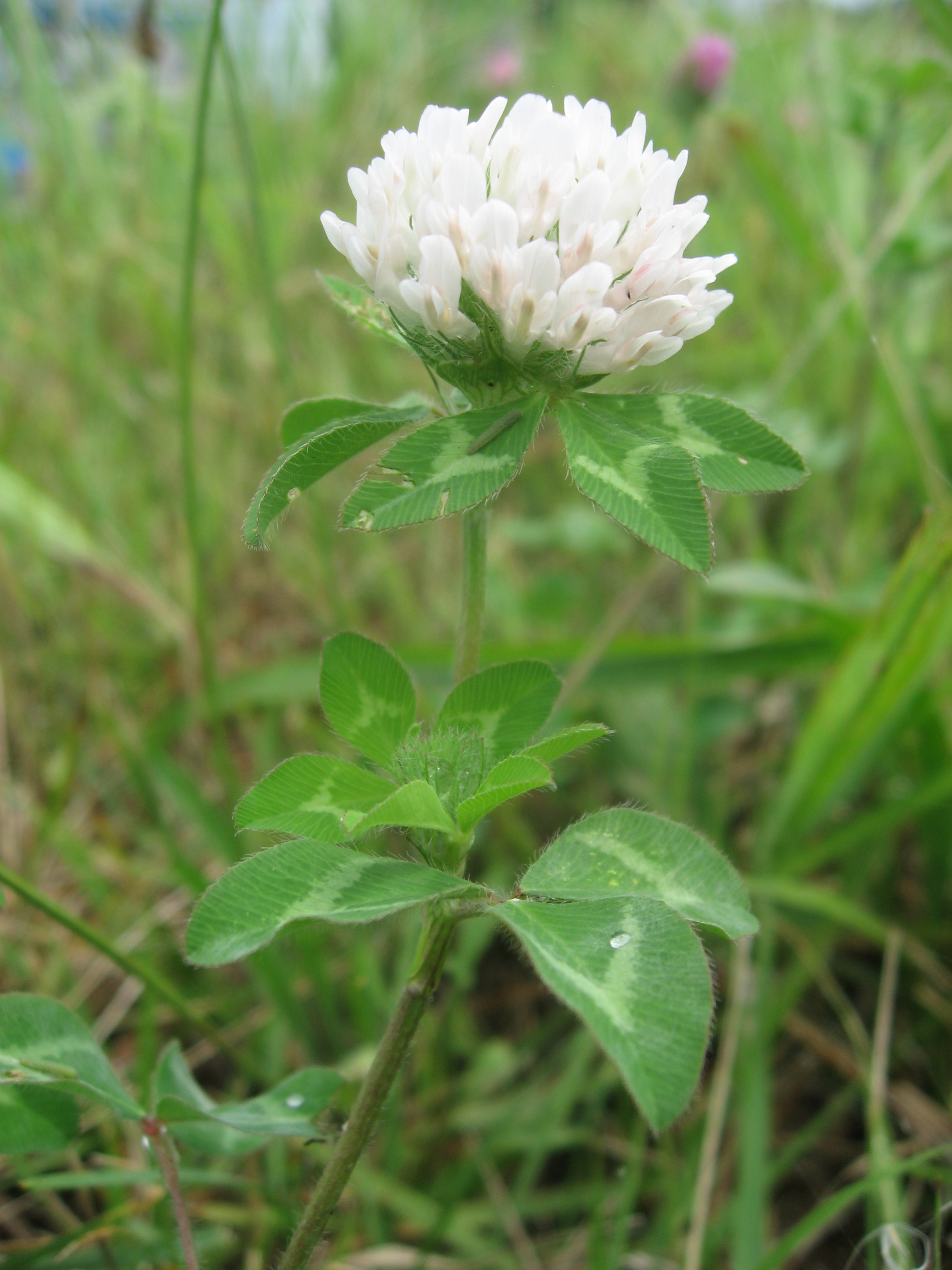 Trifolium pratense f. albiflorum, Aizu area, Fukushima pref., Japan